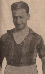 Bekir Refet